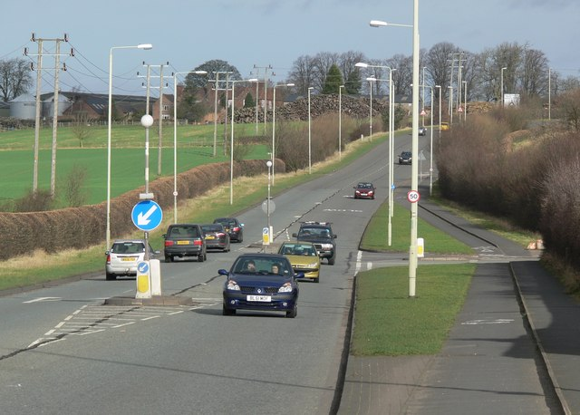 North along the A47 Normandy Way, Hinckley